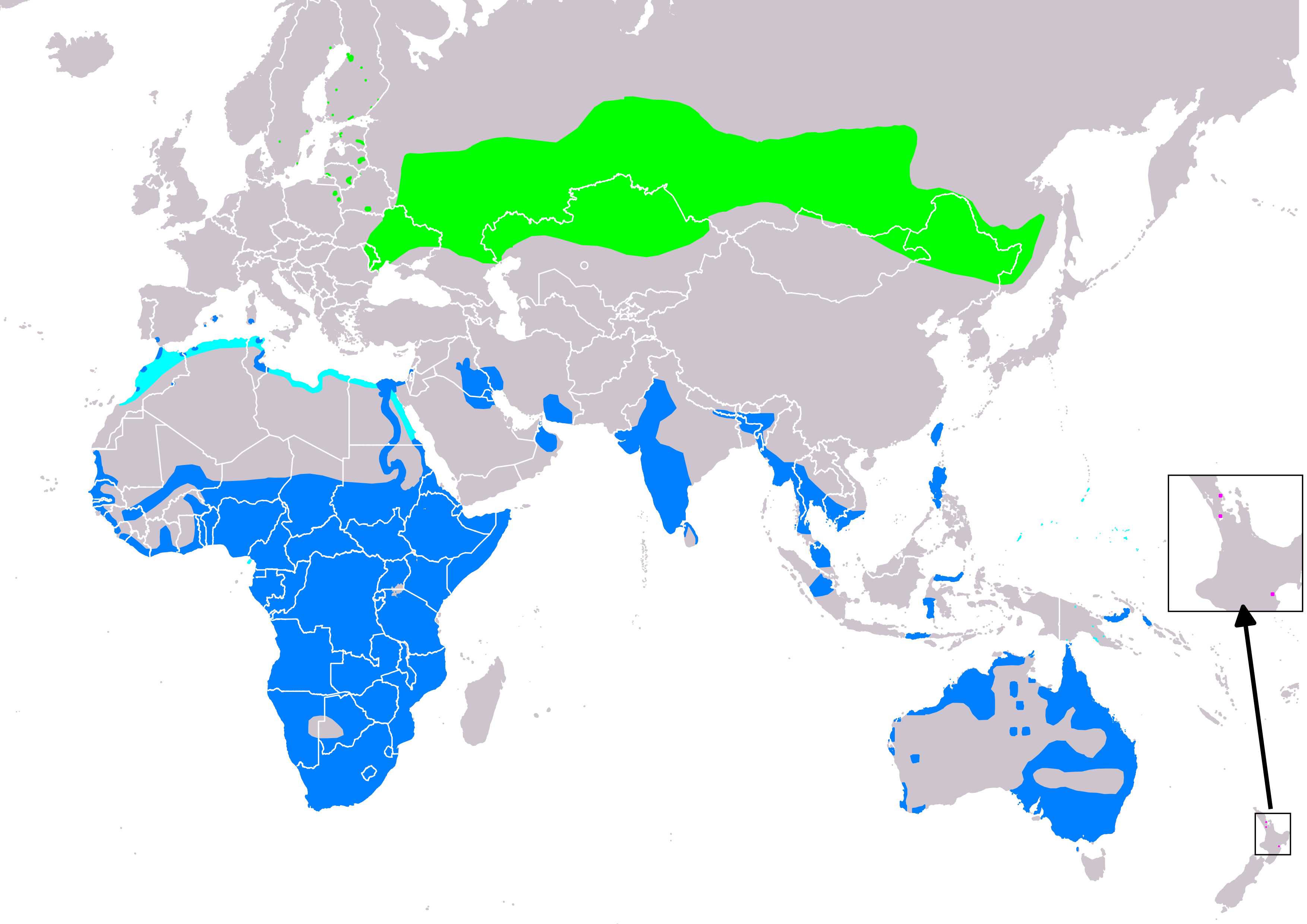 Map of Marsh Sandpiper Tringa stagnatilis according to IUCN version 2018.2; key: Legend: Extant, breeding (#00FF00), Extant, passage (#00FFFF), Extant, non-breeding (#007FFF), Extant & Vagrant (seasonality uncertain) (#FF00FF)